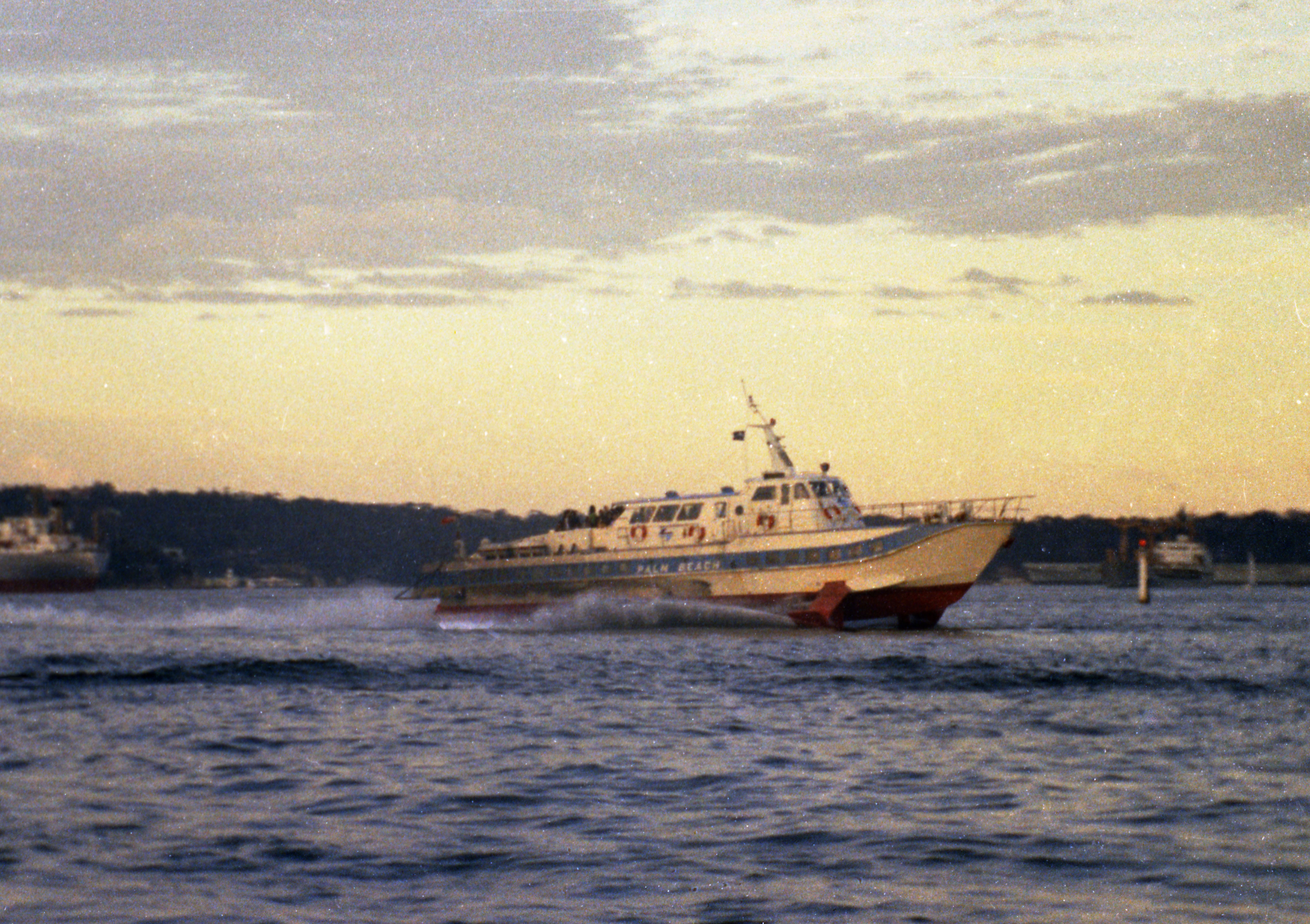 Hydrofoil "Palm Beach" near Circular Quay, August or September 1975. Note two cargo vessels in eastern Sydney Harbour, this activity all but ceased around 2000.